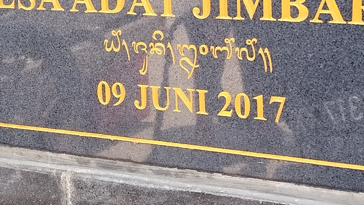 A date on a plaque in Jimbaran, Bali, expressed in both Roman alphabet/Arabic numerals and in Balinese script.